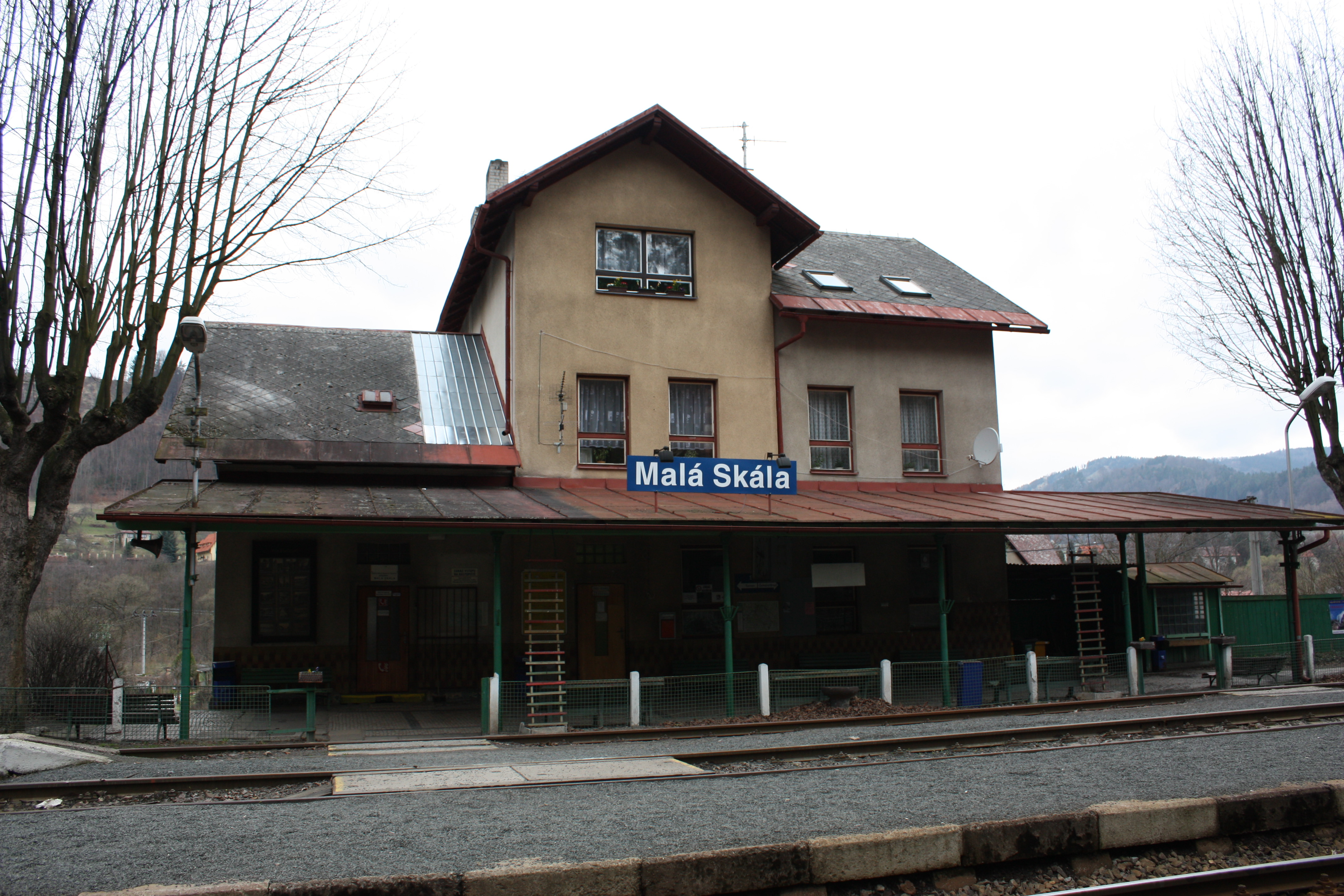 Railway Station in Malá Skála, Liberec region, Czechia.